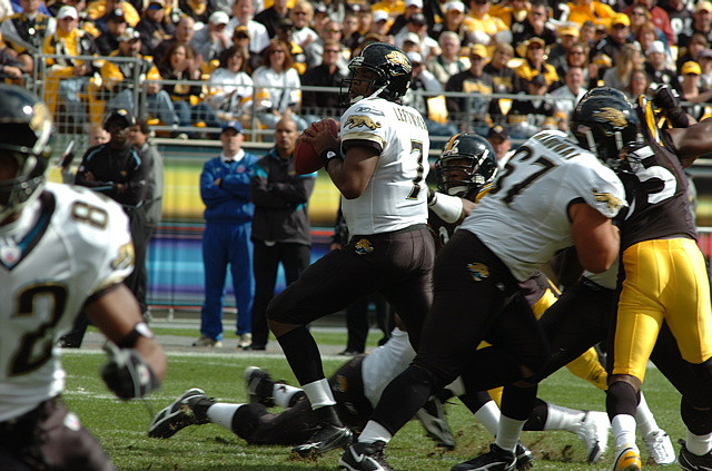 Byron Leftwich prepares to pass